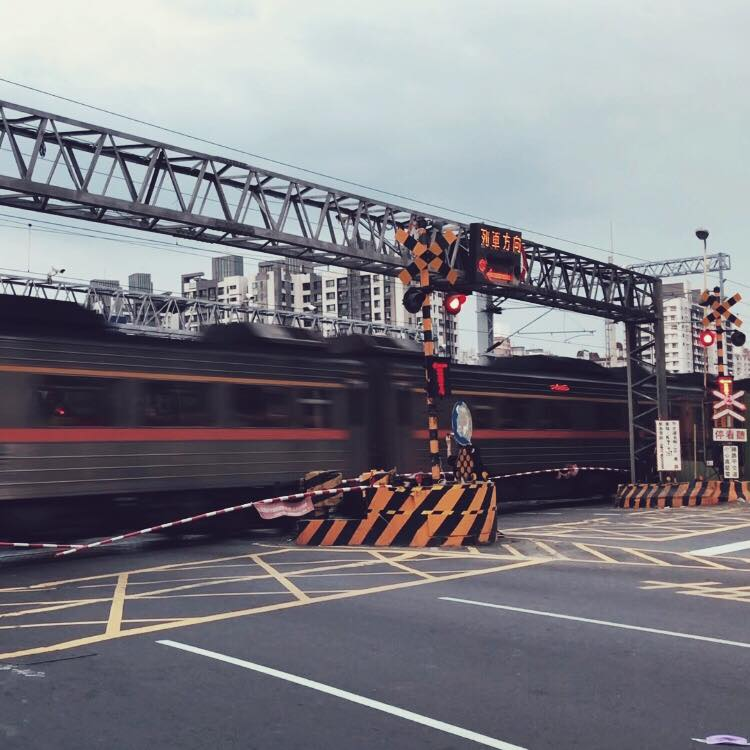 Zhengyi Road Level Crossing, Kaohsiung City.